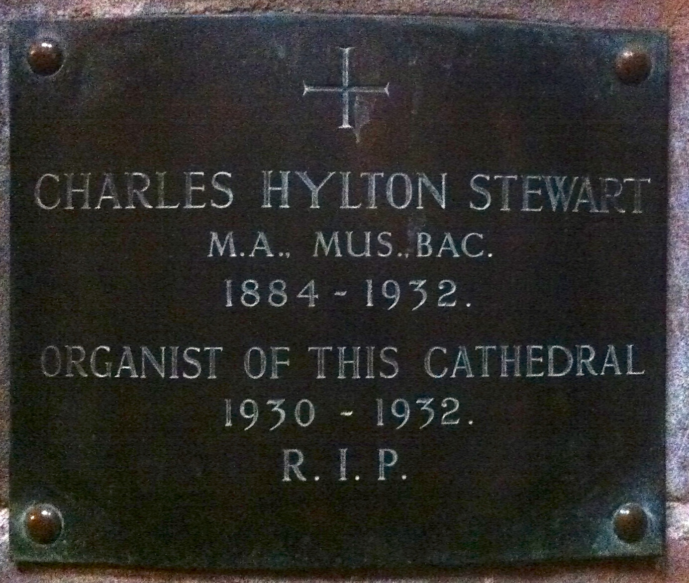 Charles Hylton Stewart, MA Mus Bac 1884-1932 Organist of this Cathedral 1930-1932 RIP